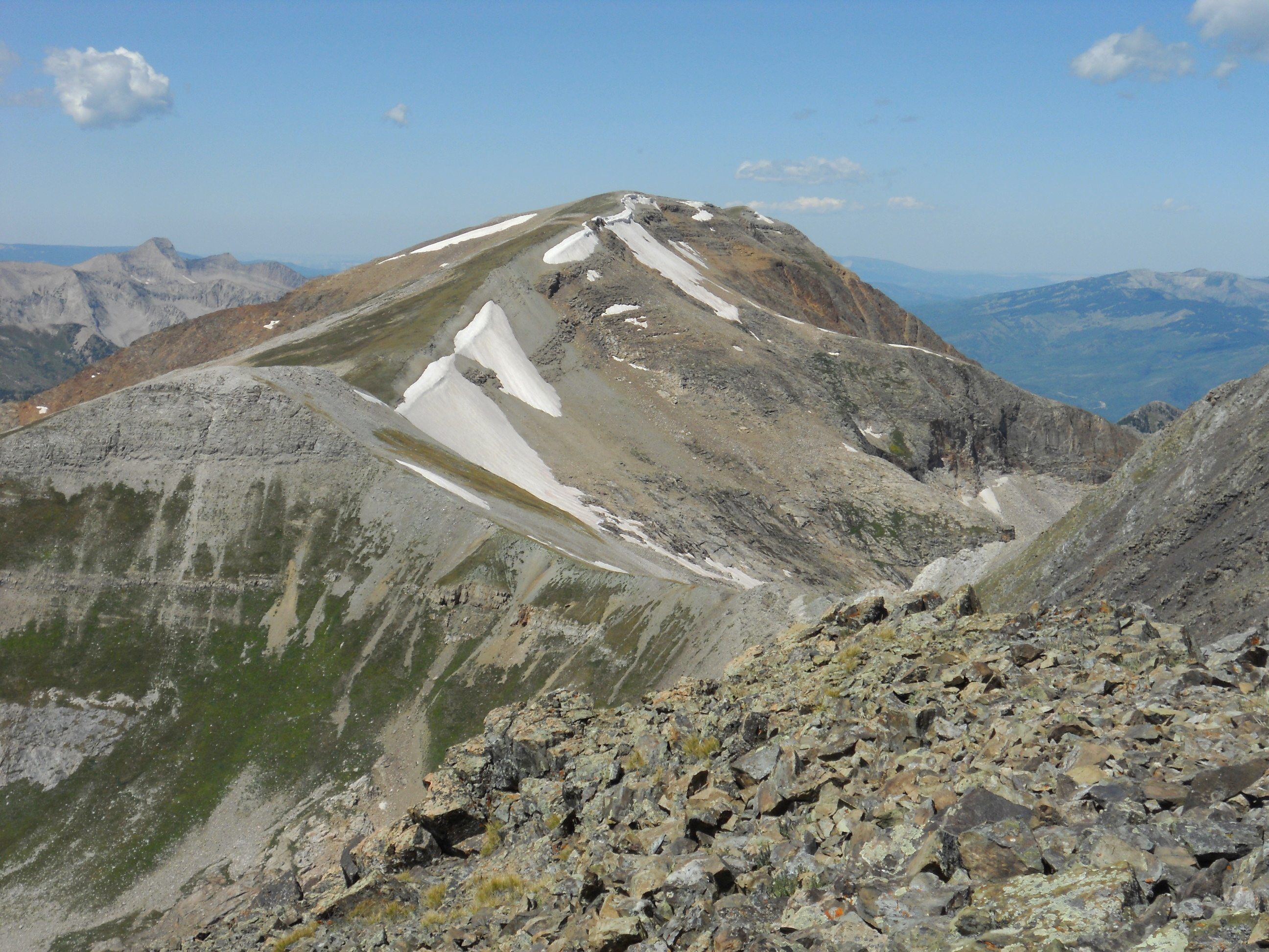 Treasure Mountain, elevation 13,528 ft (4,123 m), as viewed from the southeast. It is located in the White River National Forest and is the highest point in the Raggeds Wilderness.